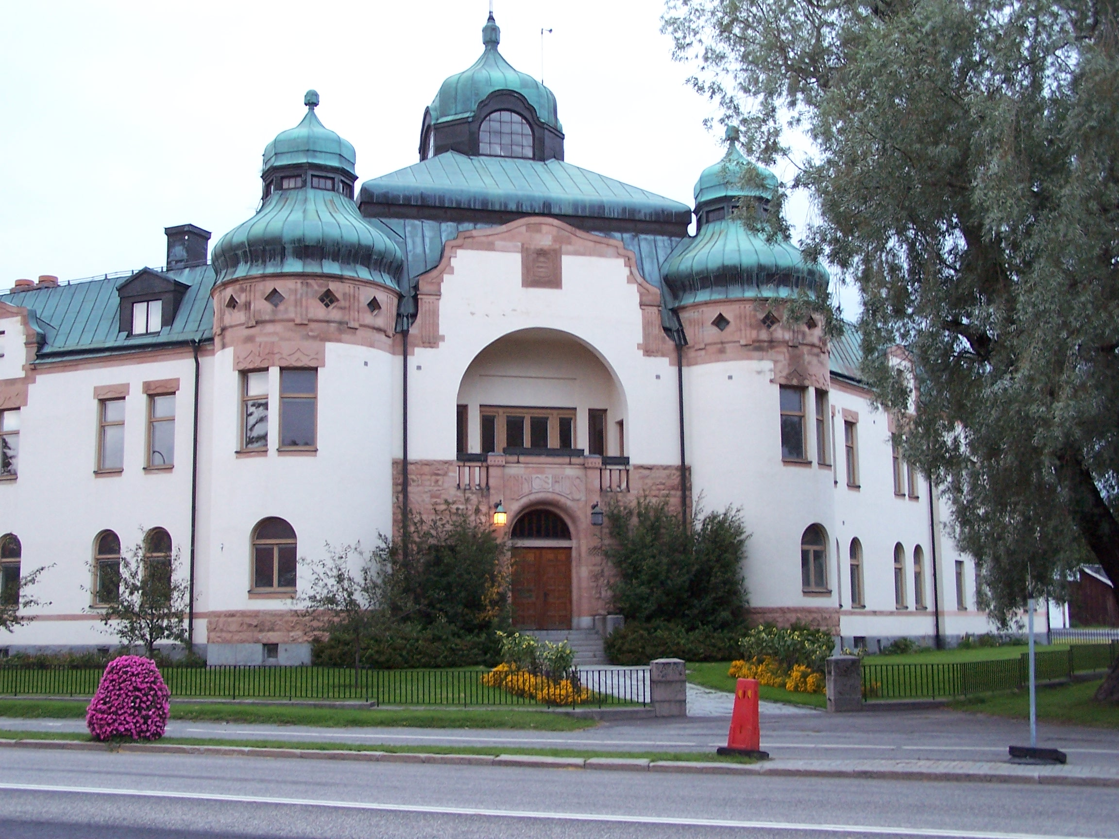 Tingshuset, Härnösand, Sweden.